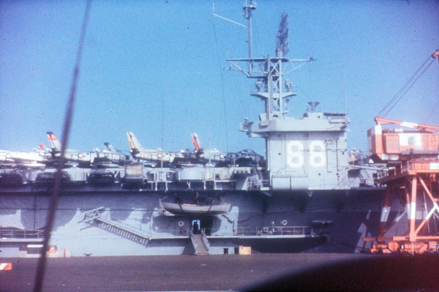 The first U.S. Air Force North American F-86A Sabre fighters arrived in Korea in November 1950 aboard the Military Sea Transportation Service carrier USS Cape Esperance (T-CVE-88).